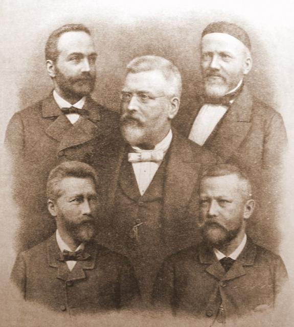 The leading men of the Danish party Venstre: Clockwise, Frede Bojsen, Christen Berg (center), Sofus Høgsbro, Viggo Hørup, Ludvig Holstein-Ledreborg